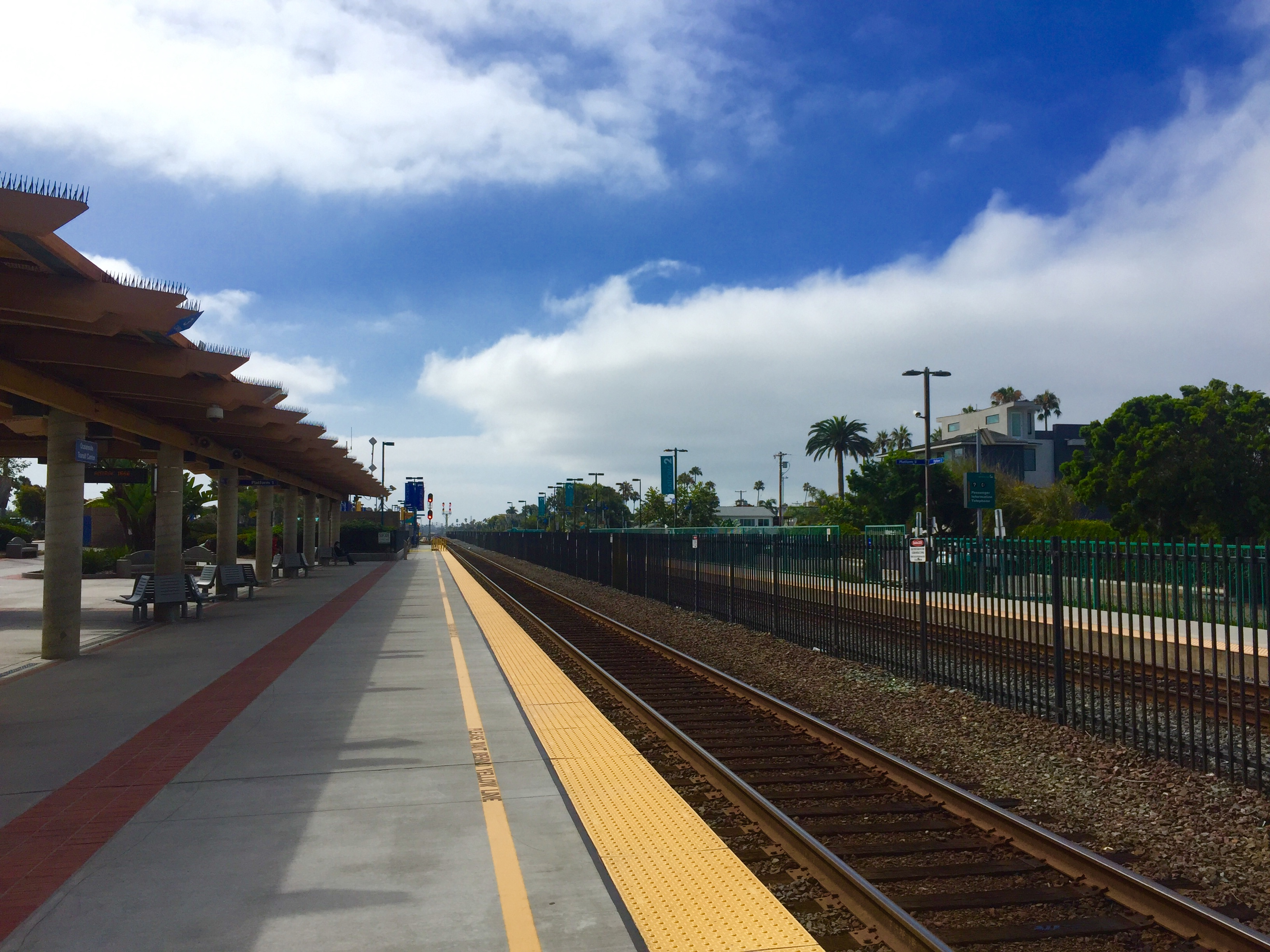 A view looking south on Platform 1 at Oceanside Transit Center. The third platform is out-of-view in this picture, but is located south adjacent to the Sprinter platforms.